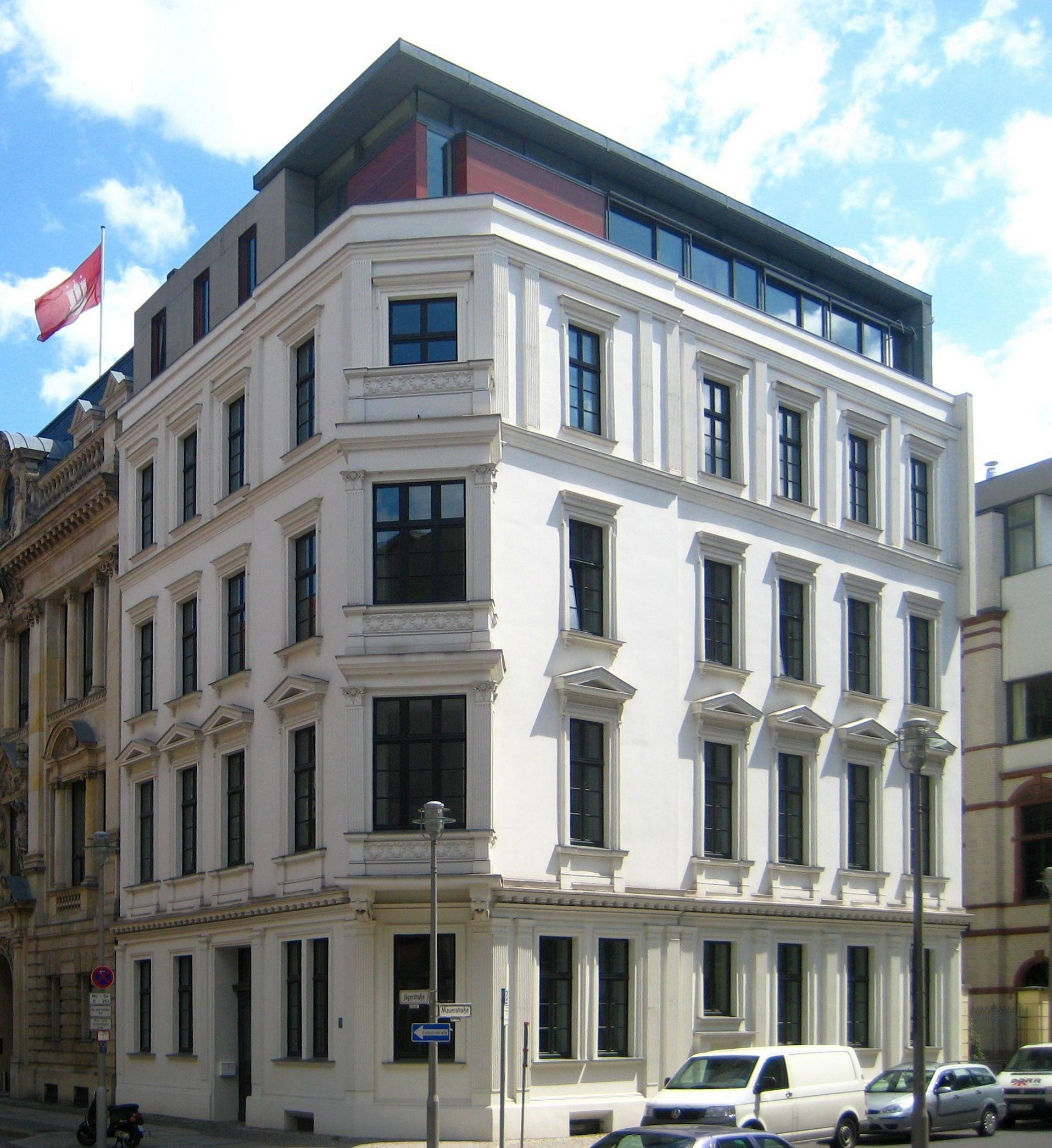 Former residential building Jägerstraße No. 1, corner of Mauerstraße (on the right), in Berlin-Mitte, now part of the Representation of the State of Hamburg in Berlin. The house was built in 1871. It is part of a protected historic buildings area.